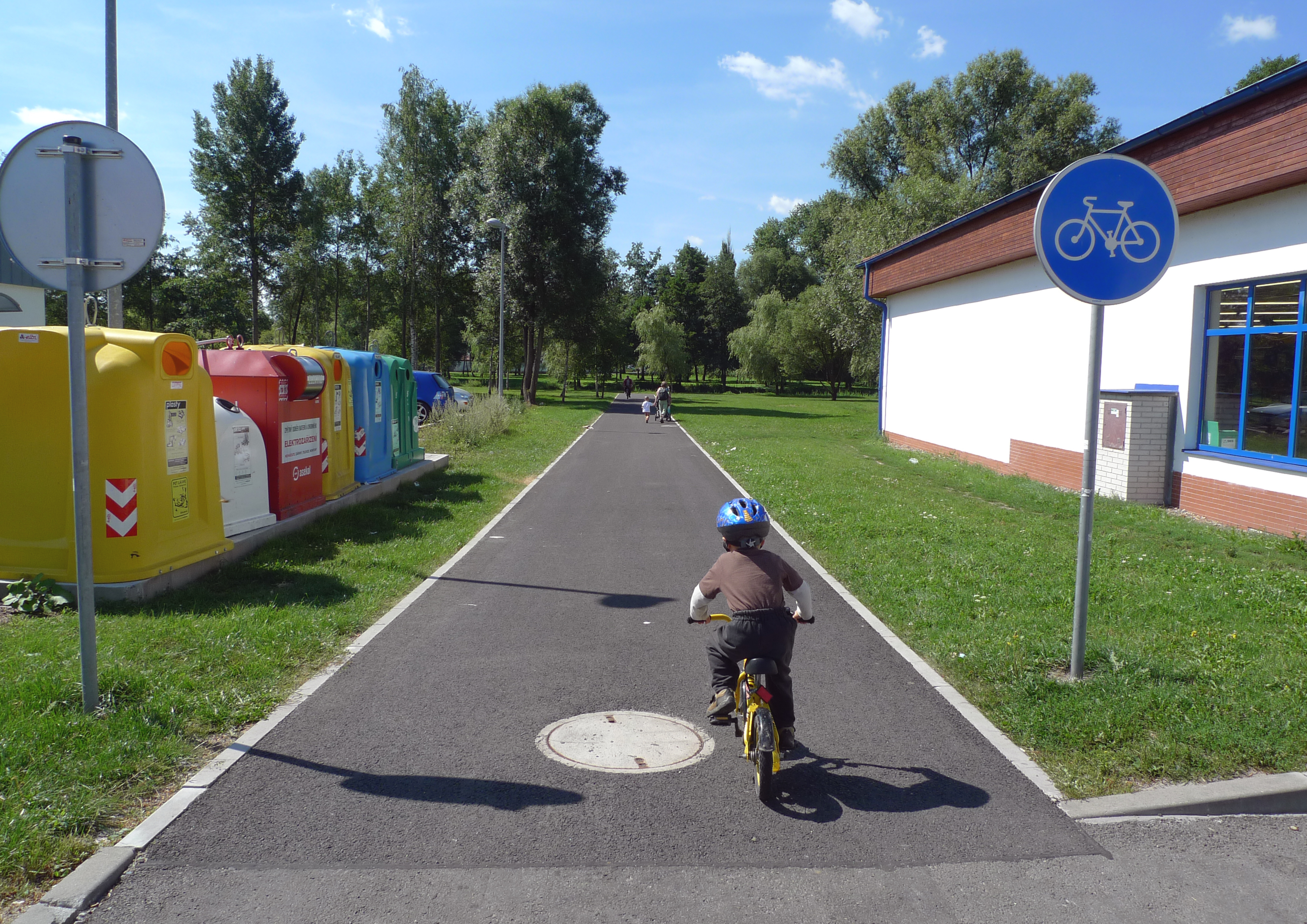 Mimoň in the Czech Republic - bikeway